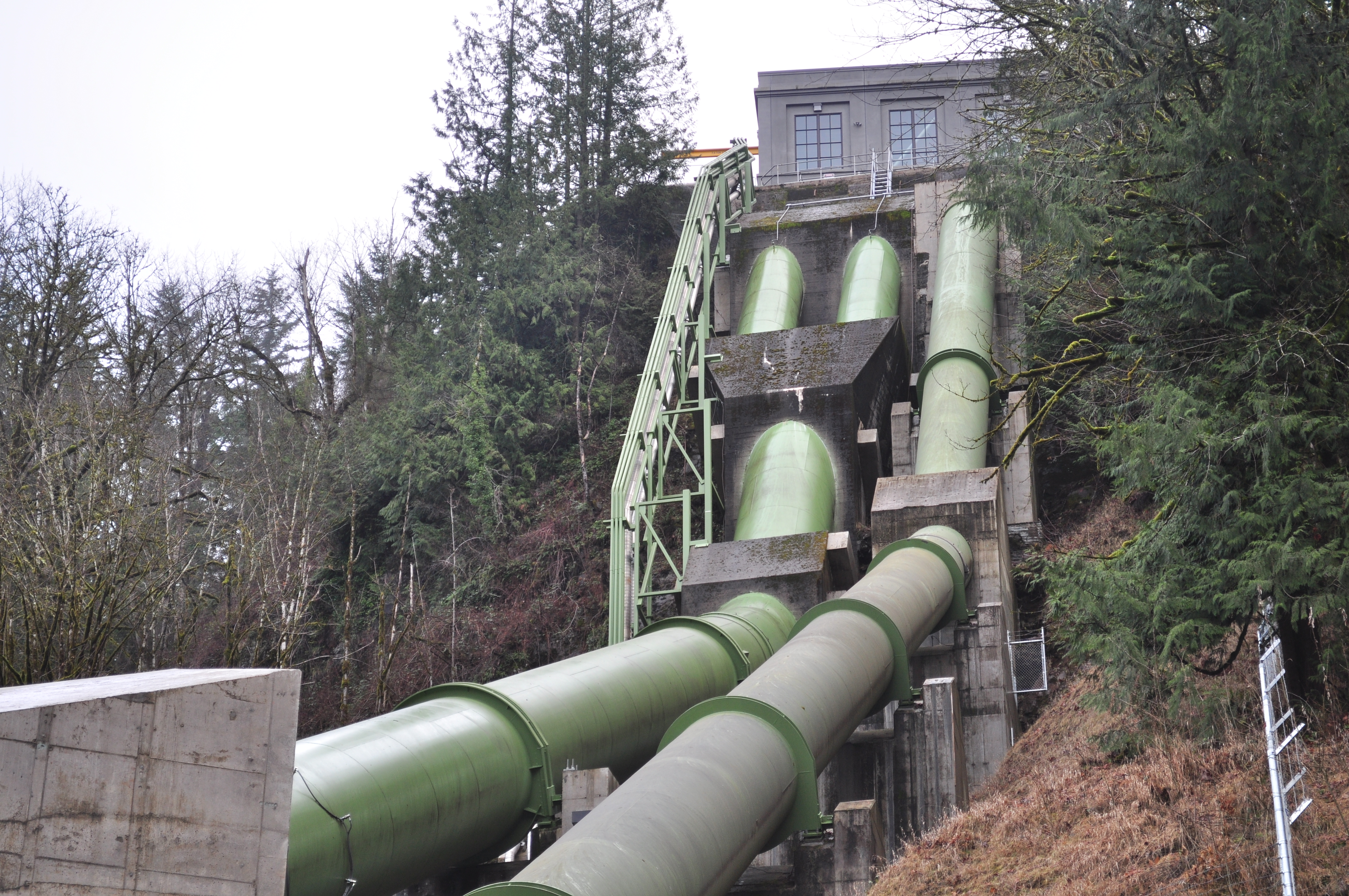 Penstocks, Snoqualmie Falls Power Plant No. 2, Snoqualmie, Washington, U.S.